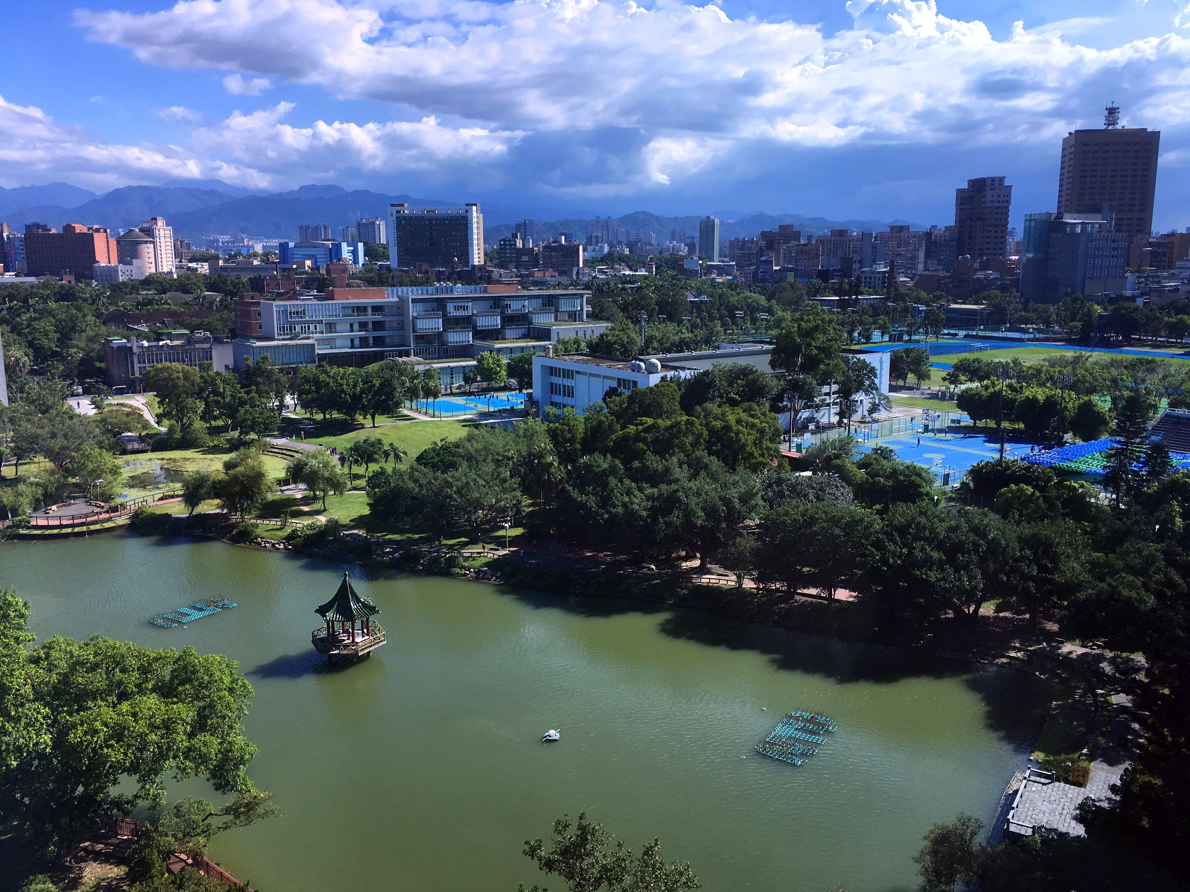 Druken Moon Lake, National Taiwan University.